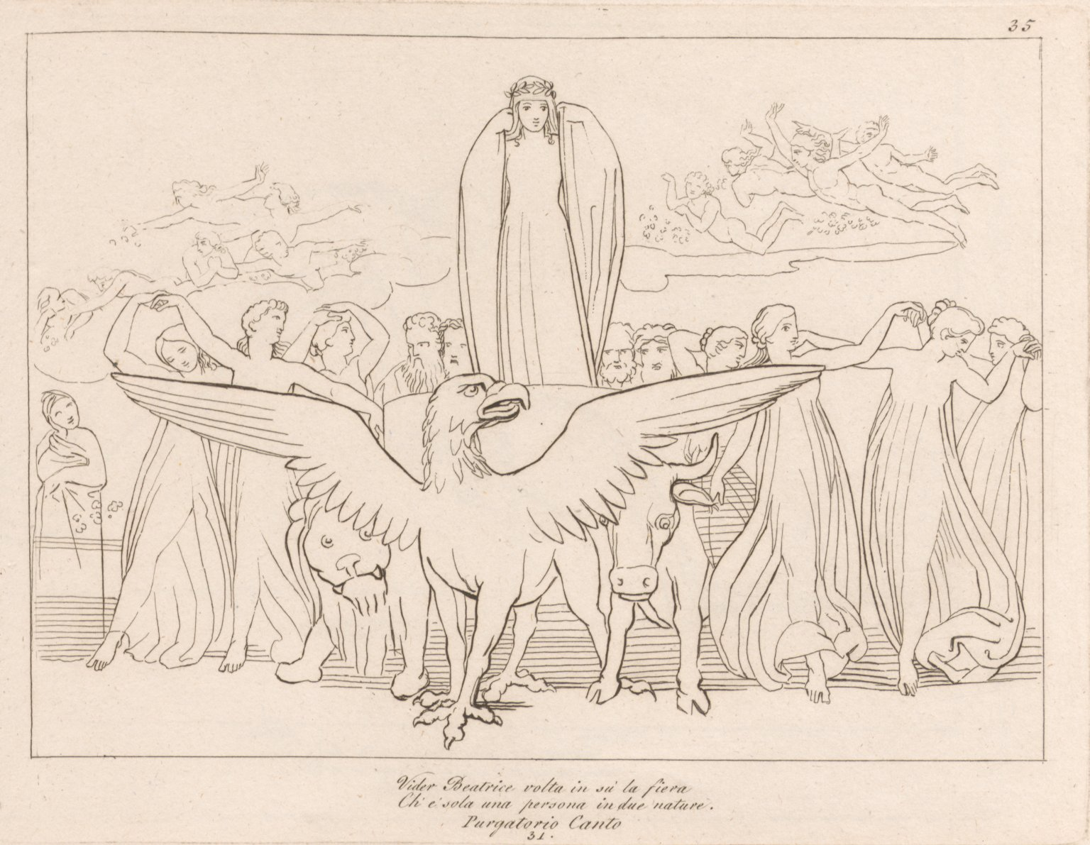 Engraving: Vider Beatrice volta from Divina Commedia by Dante - illustration designed by John Flaxman, engraved by Tommaso Piroli.